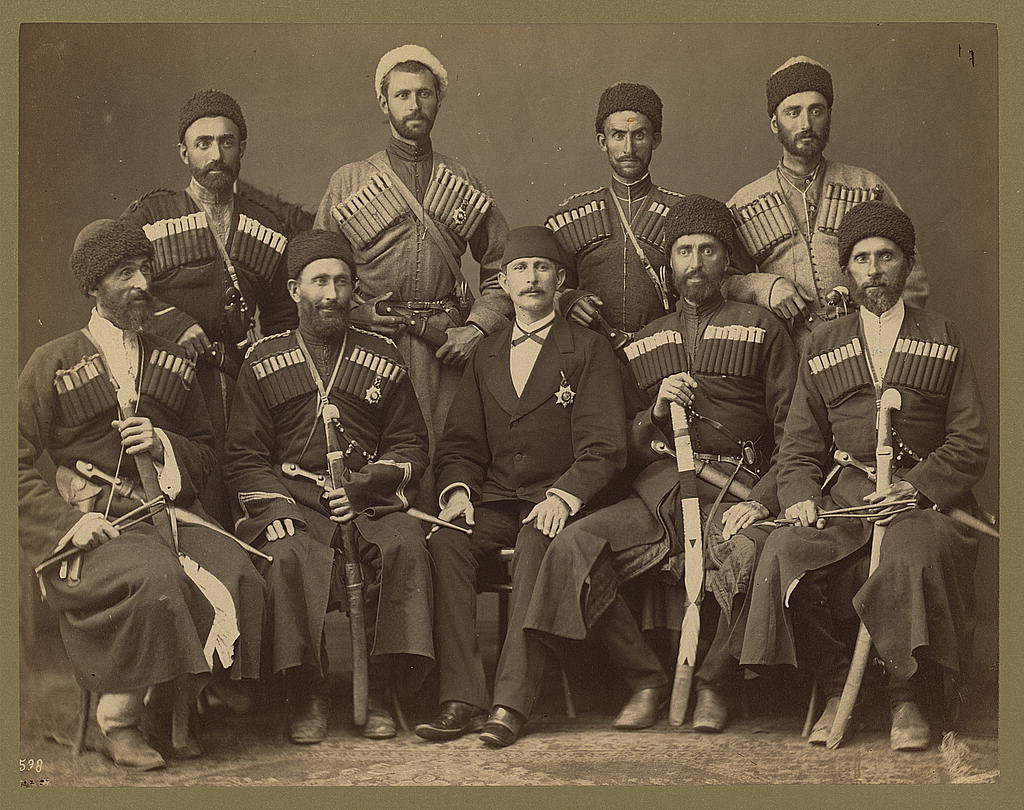 Group portrait of eight Circassian men in uniform, with another man, possibly an Ottoman official.